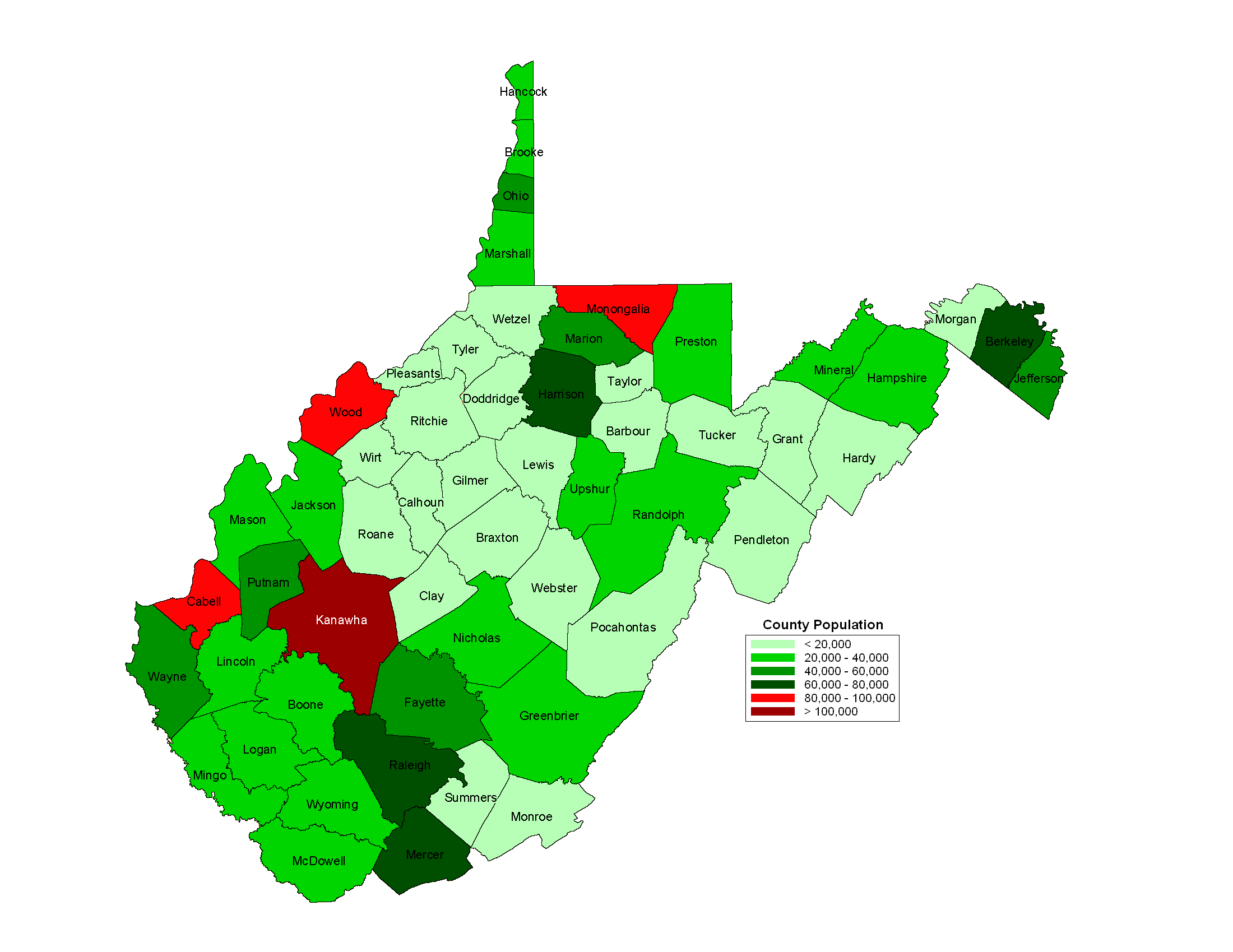 A population map of West Virginia by county